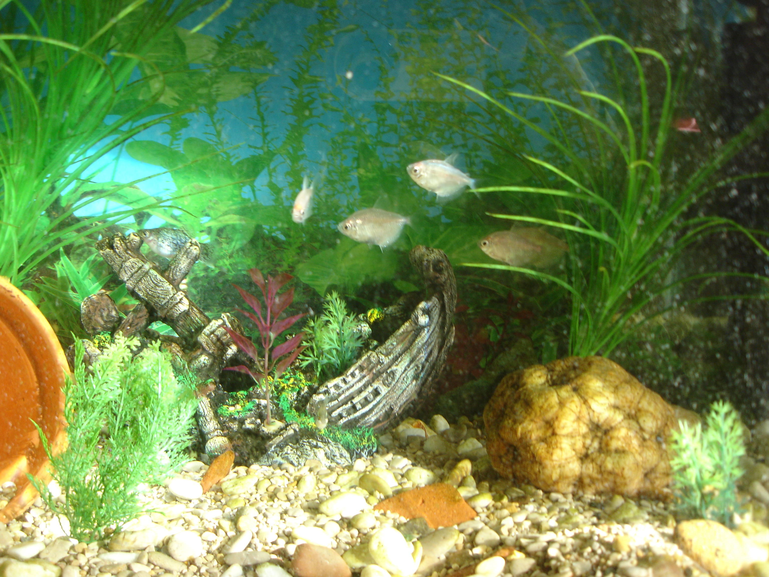 Group of black tetras, Gymnocorymbus ternetzi, of the leucistic aquarium variant